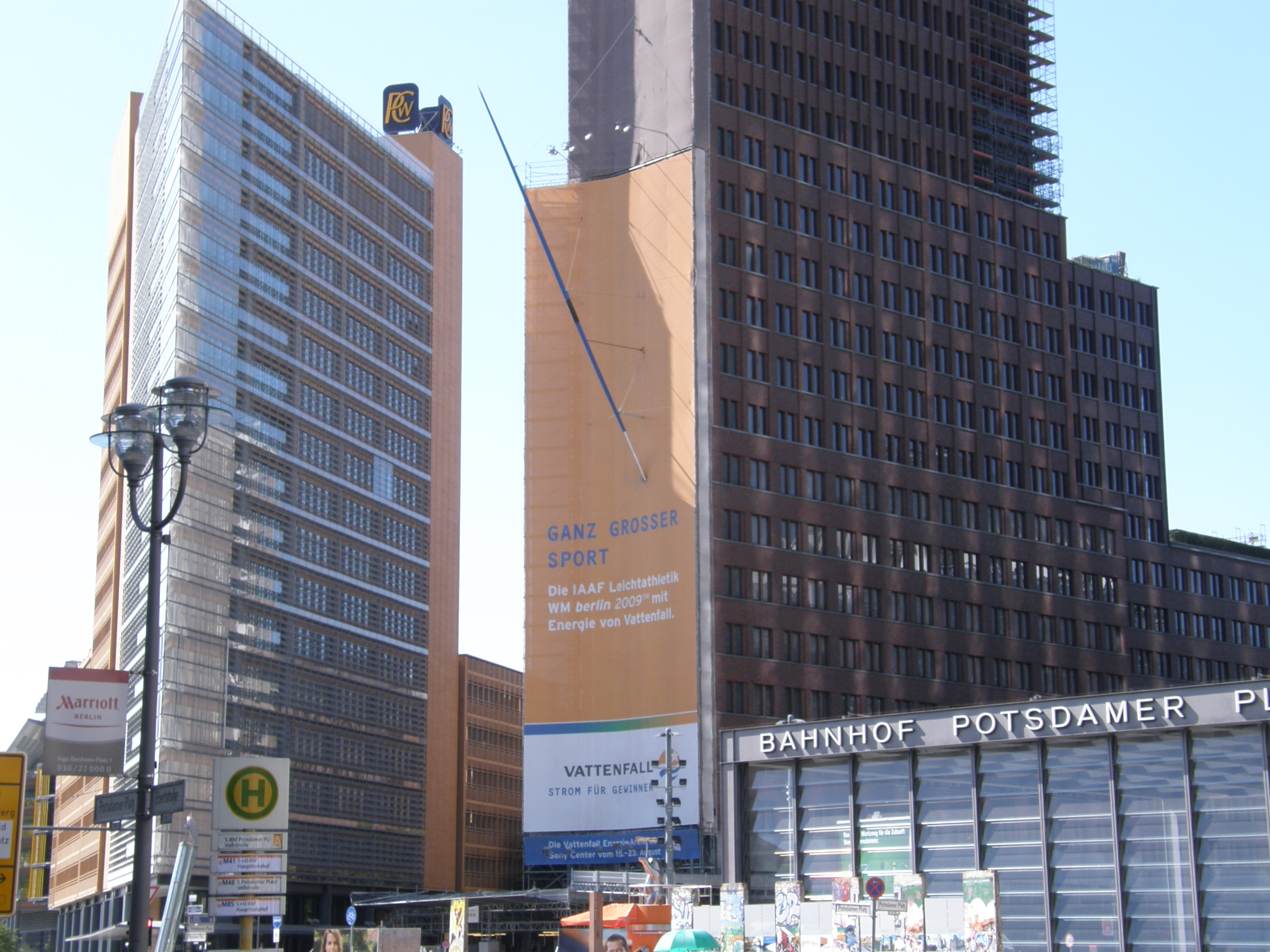 Berlin, IAAF World Championships in Athletics